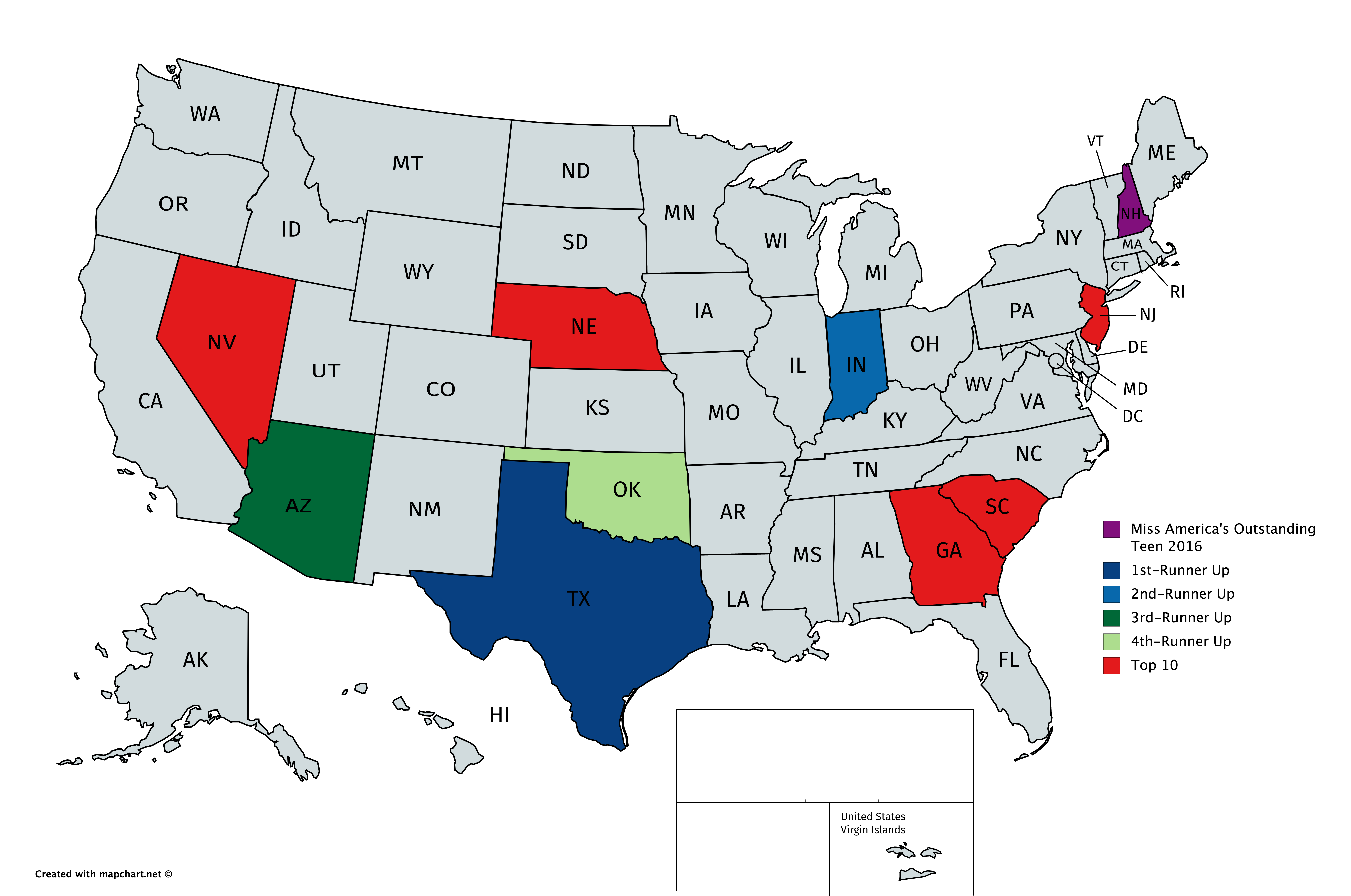 Placements of Miss America's Outstanding Teen 2016 on a map